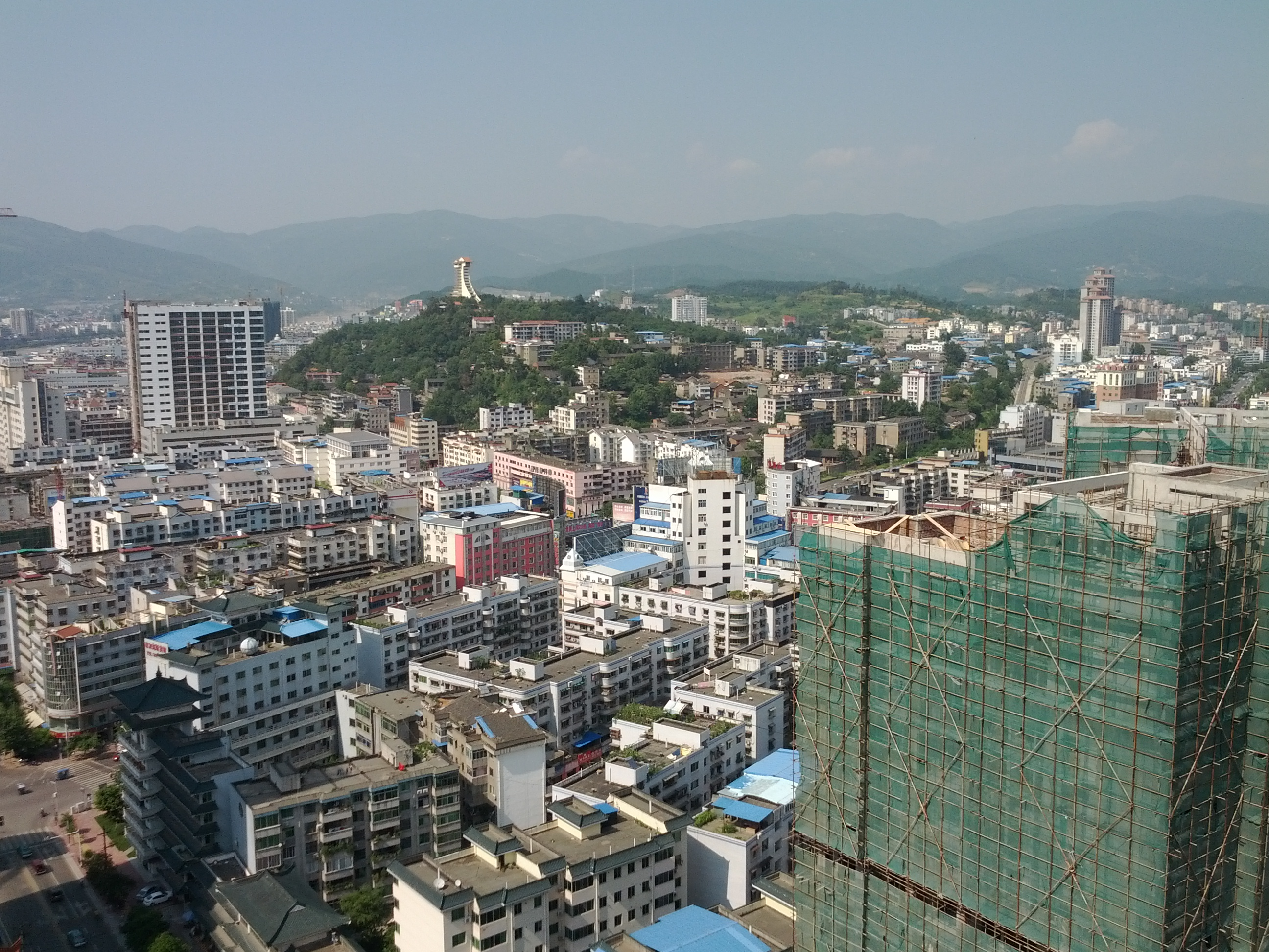 Looking over Guangyuan, Sichuan province, China towards Phoenix Hill Park (凤凰山公园), which is the nearest green area (and has an observatory on top).